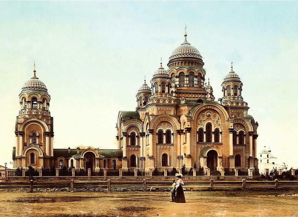 Kazanskiy Cathedral in Irkutsk